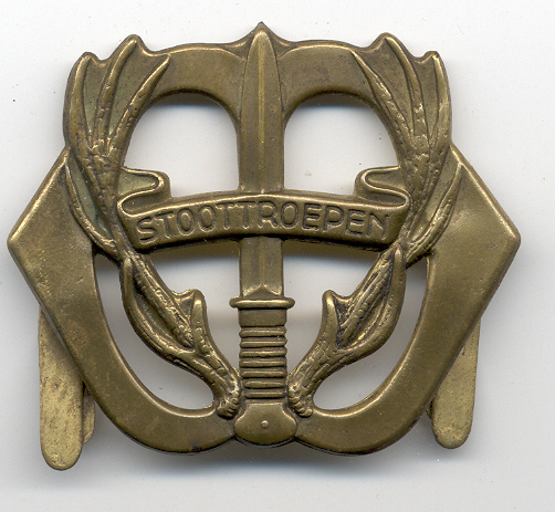 Baret Badge Stoottroepen